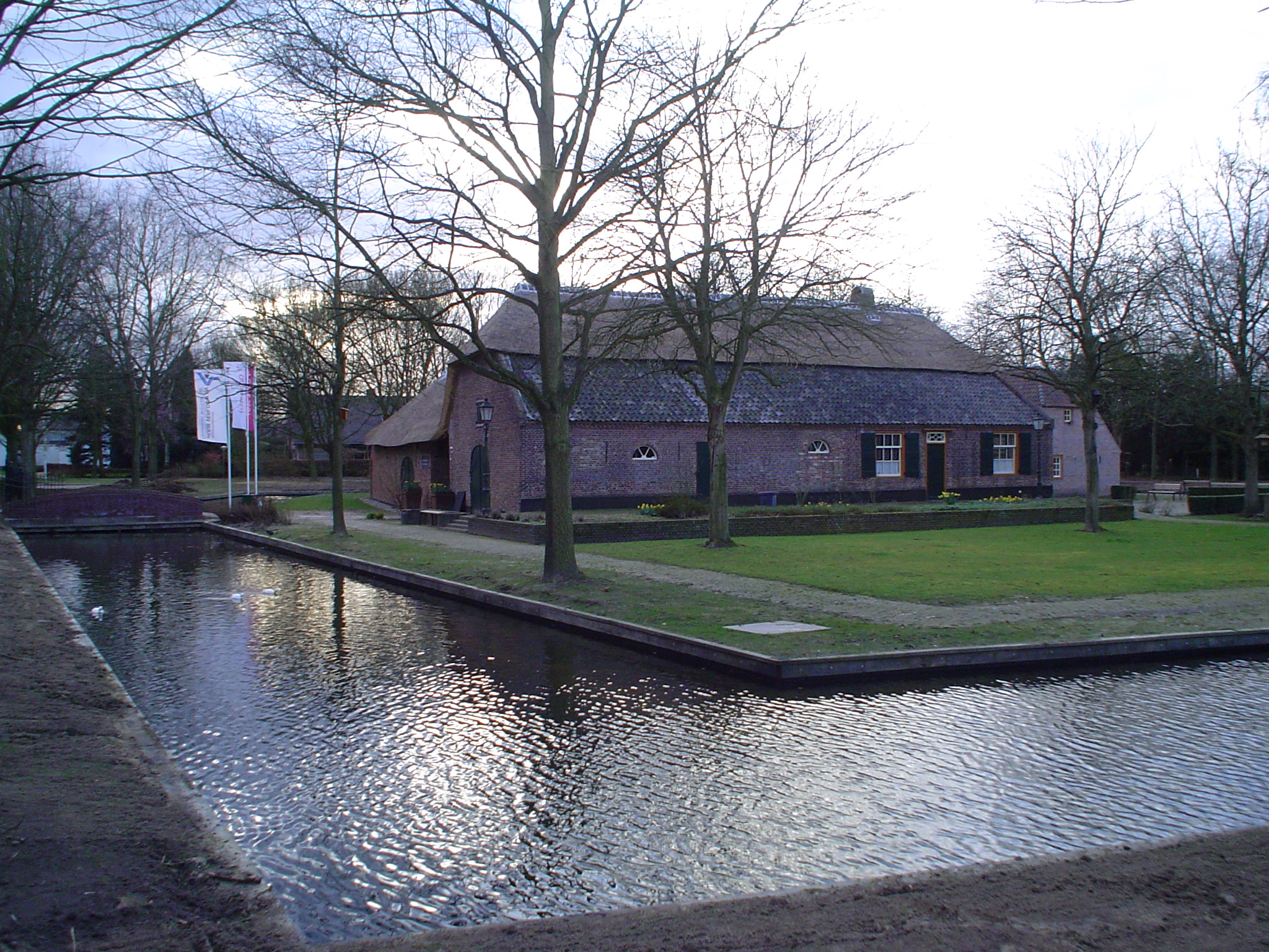 Museum 't Oude Slot, located at an old farmhouse in the town of Zeelst.